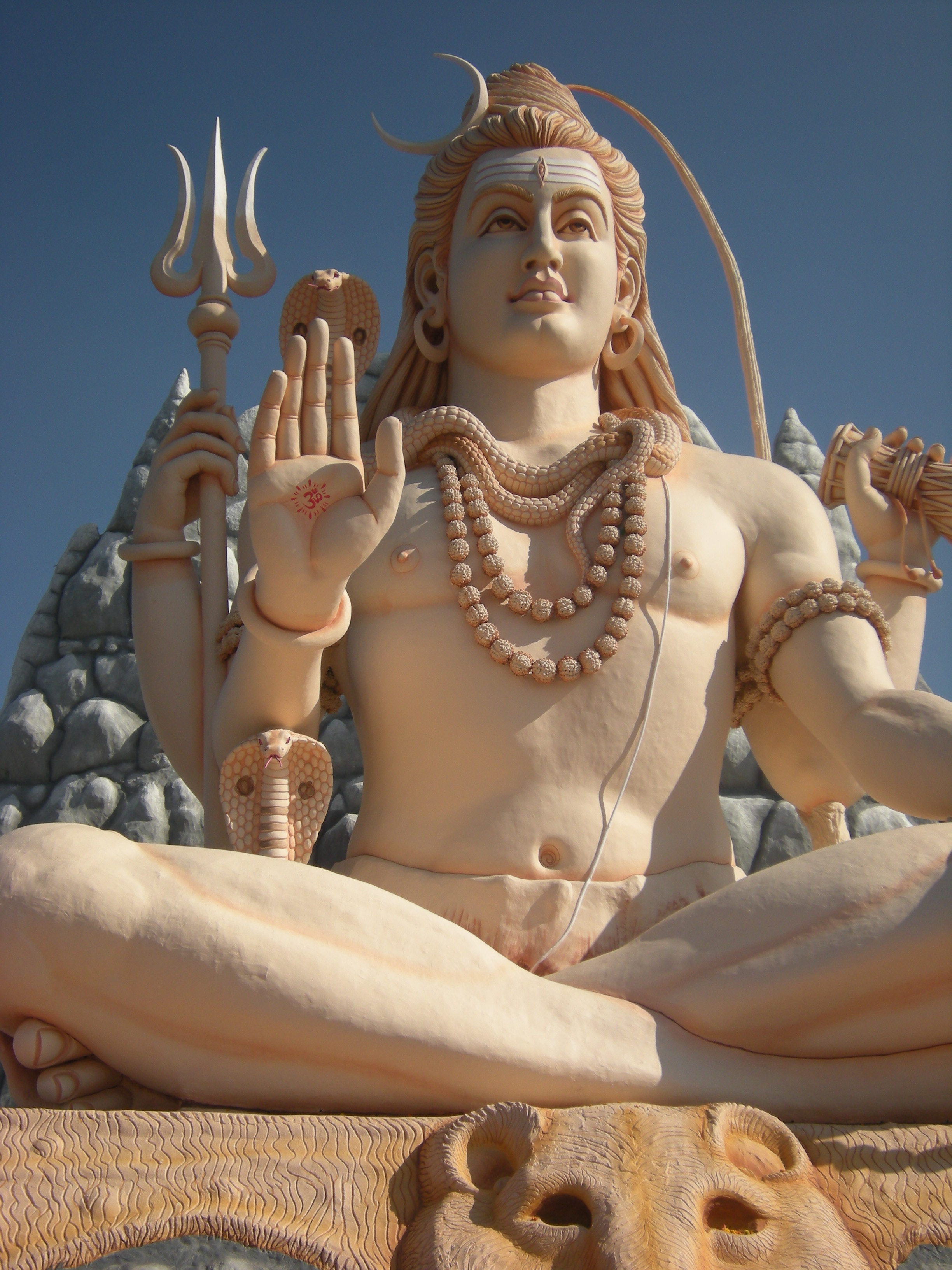 Statue of Shiva